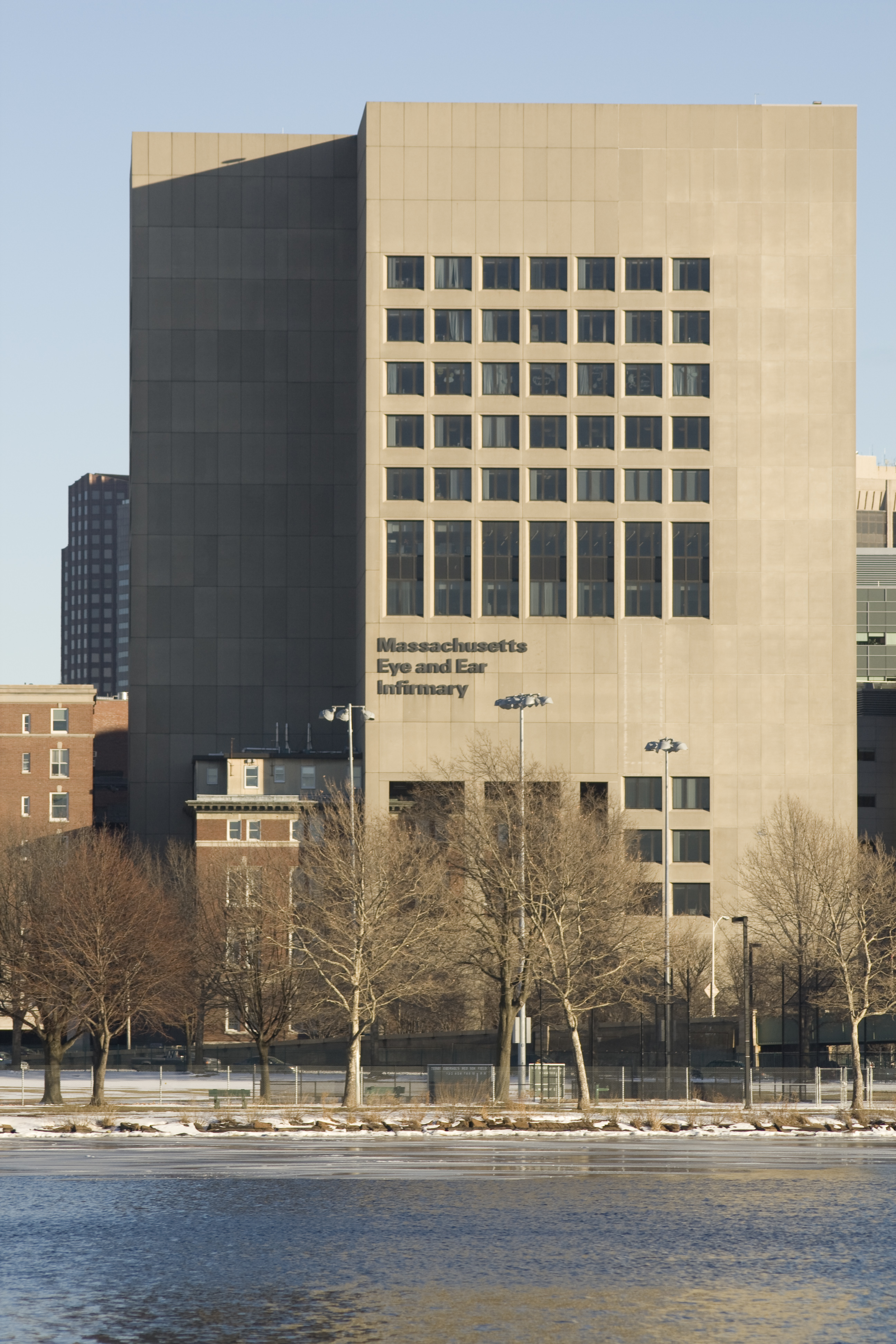 Main Building from across the Charles River